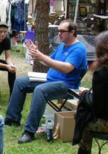 Jason Shepherd teaching Welsh at the Los Angeles St. David's Day Festival